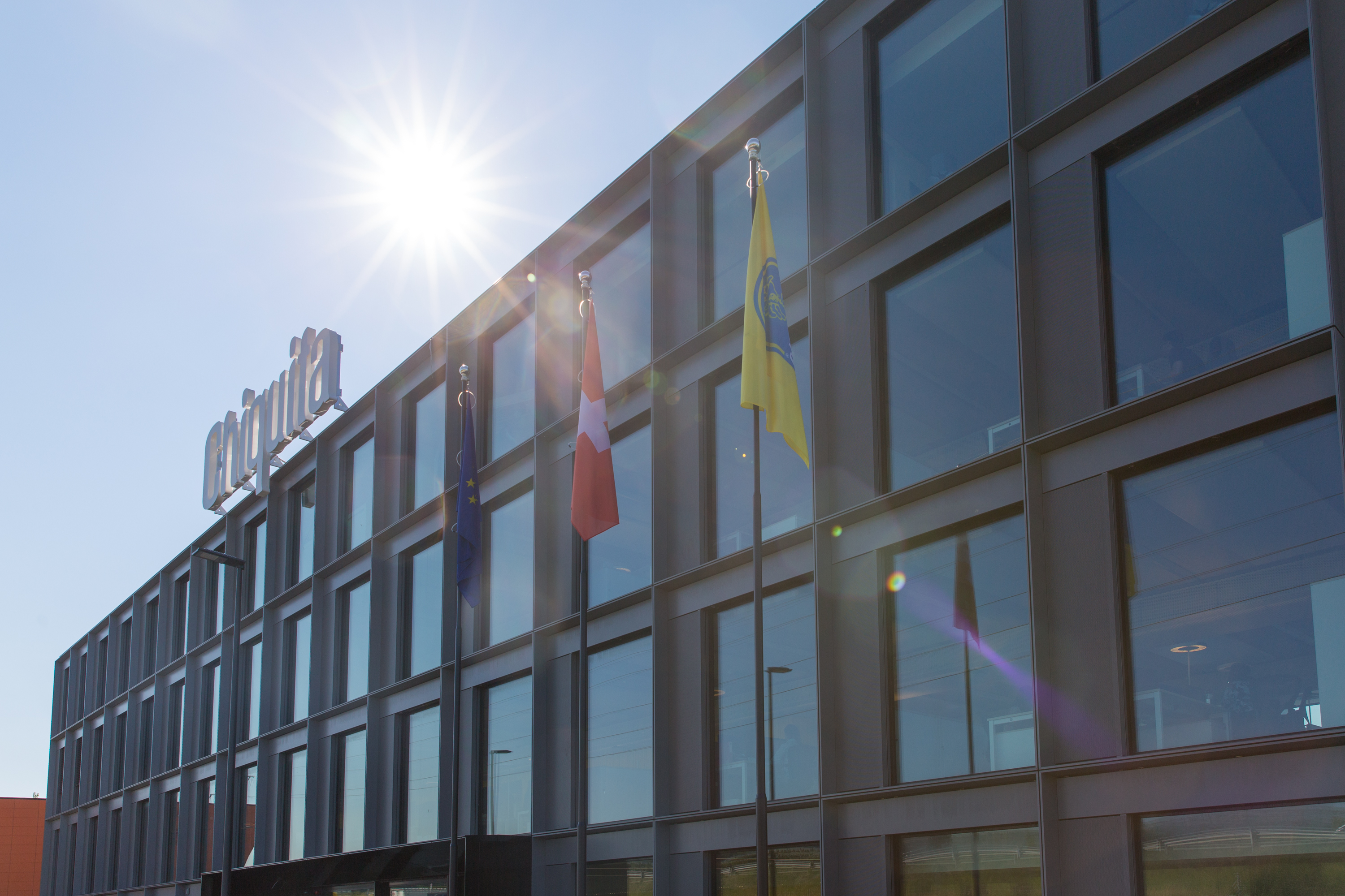 Chiquita Headquarter Europe in Etoy, Switzerland